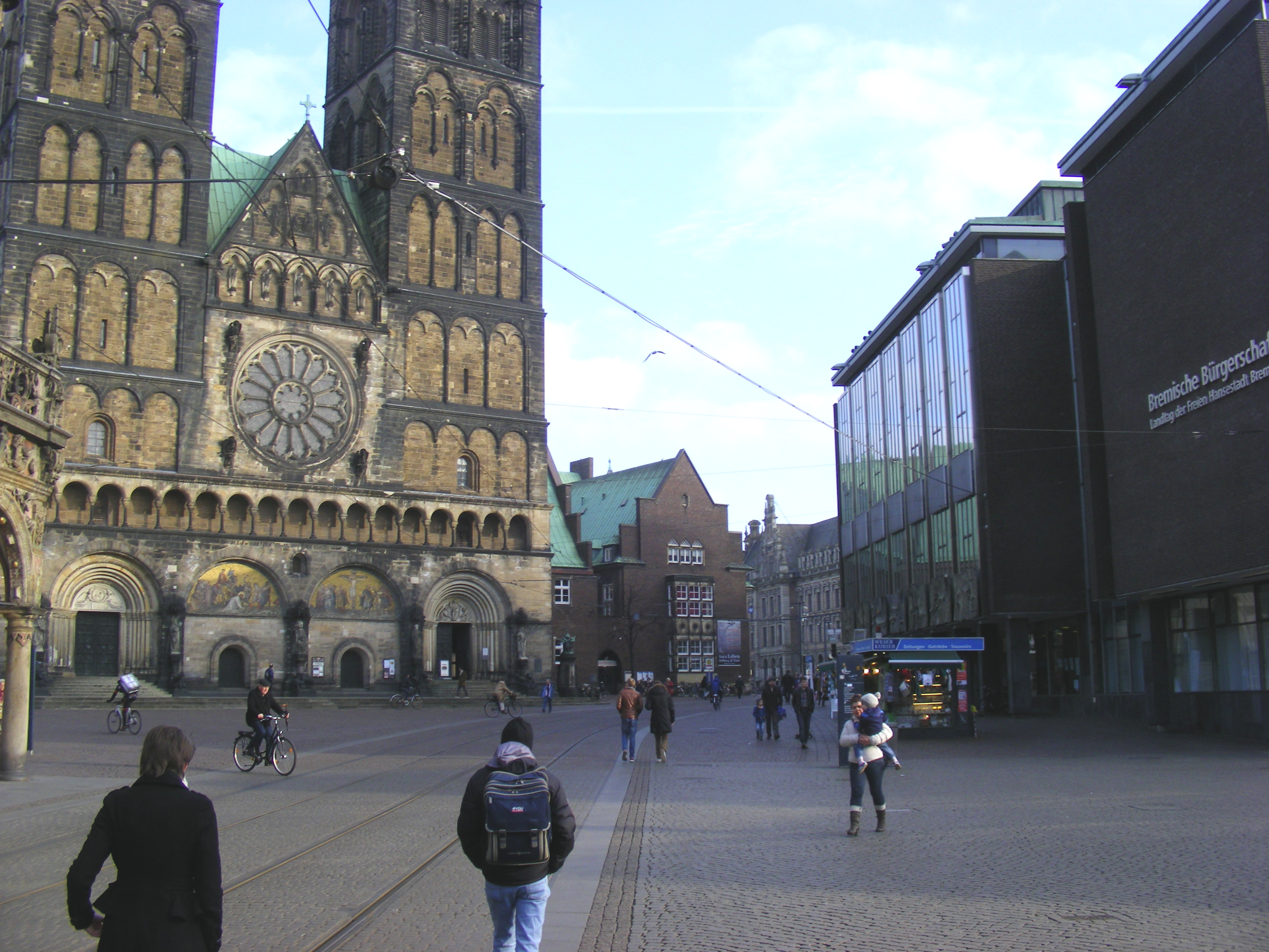 Bremen: View from the Marktplatz square across the "Grasmarkt" square to the cathedral and Glocke building